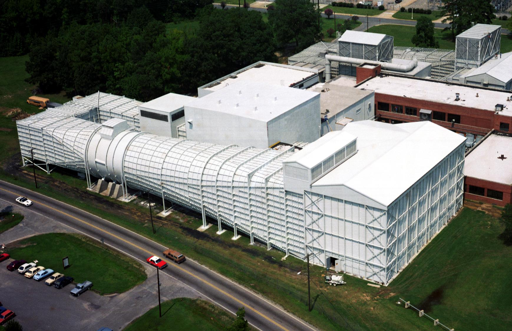 (1985-L-10002): In this 1985 aerial view, the 14-by 22-Foot Tunnel dwarfs the 7- by 10-Foot High-Speed Tunnel at the upper right. Note the three concrete pedestals needed to support the circular fan and motor section and the separate air exhaust and intake towers.